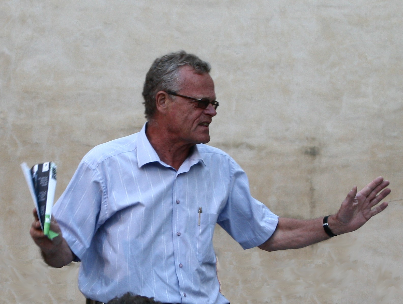 County governor Björn Eriksson, cropped from File:Bjorn Eriksson 20090808 1.jpg, at the opening of the festival Östergötlands musikdagar 2009, at Linköping castle in Linköping, Sweden.